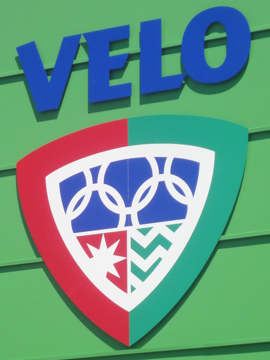 VELO (sportsclub)